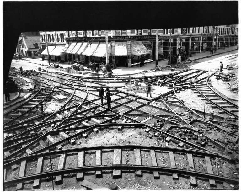 Tramway crossing under construction, Ste. Catherine and St. Lawrence St., Montreal, QC, Canada